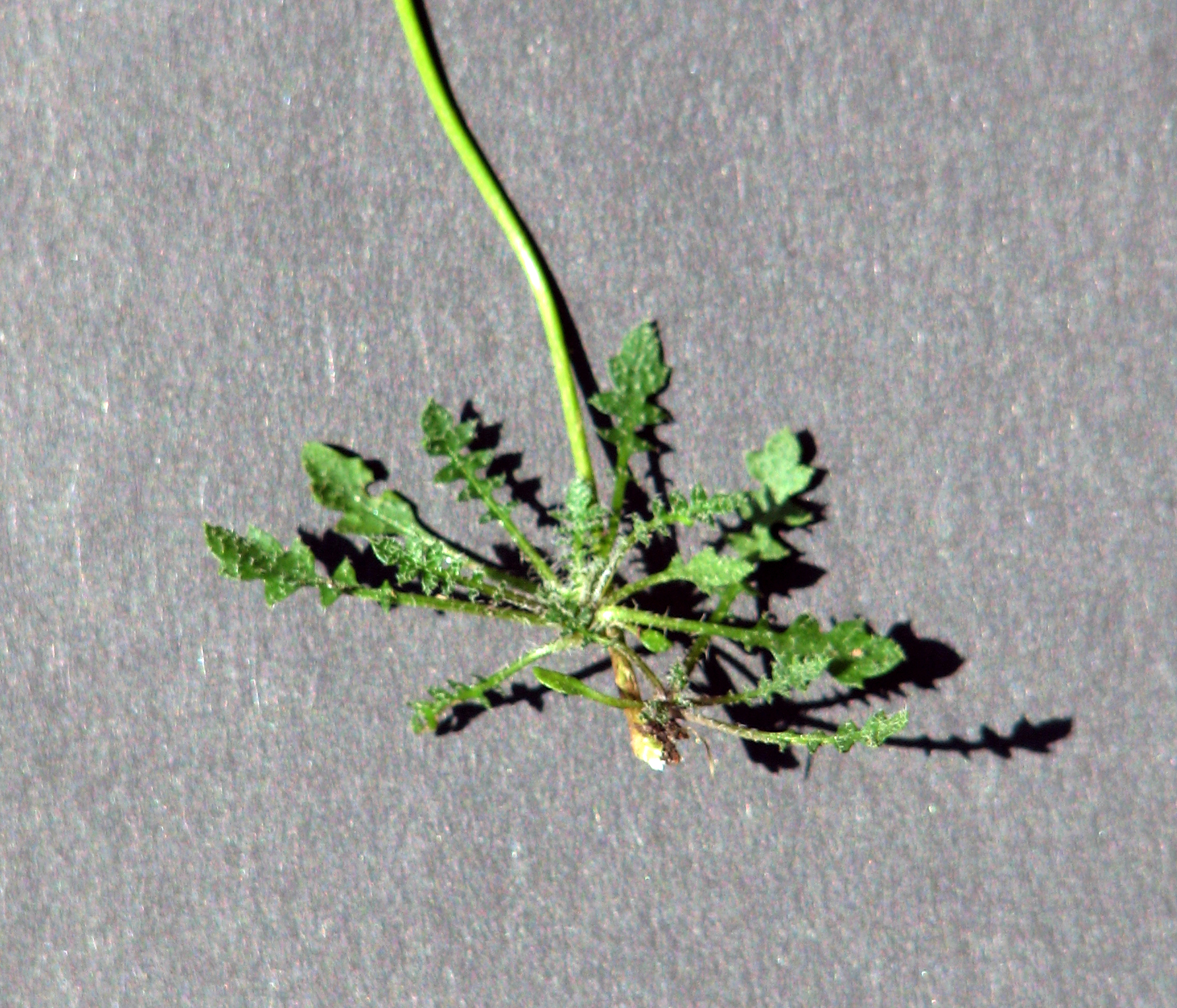 Arabidopsis arenosa subsp. arenosa ground rosette, Gruenau, Upper Austria